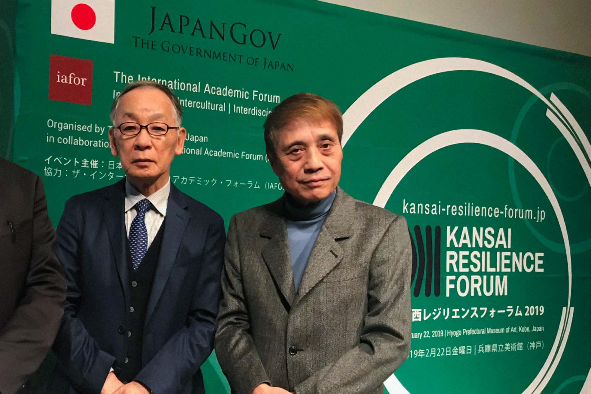 Japanese Pritzker Prize winning architect, Tadao Ando (pictured centre) at the Kansai Resilience Forum in Kobe, Japan. Held February 22, 2019, the Kansai Resilience Forum was organised by the Government of Japan in collaboration with The International Academic Forum (IAFOR).